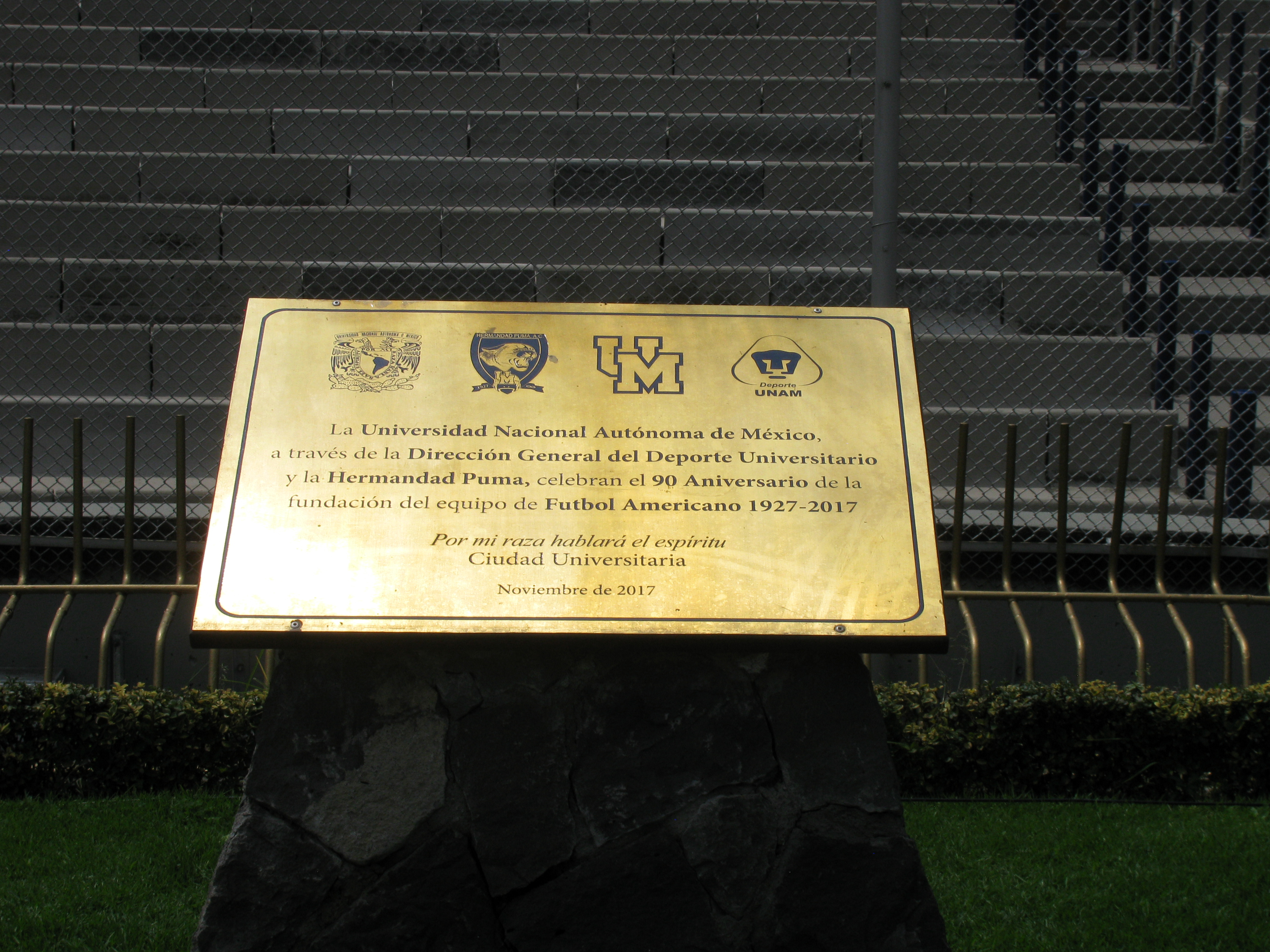 Event to commemorate the 50th anniversary of the 1968 Olympic Games in Mexico. University Olympic Stadium, Mexico City, Mexico.